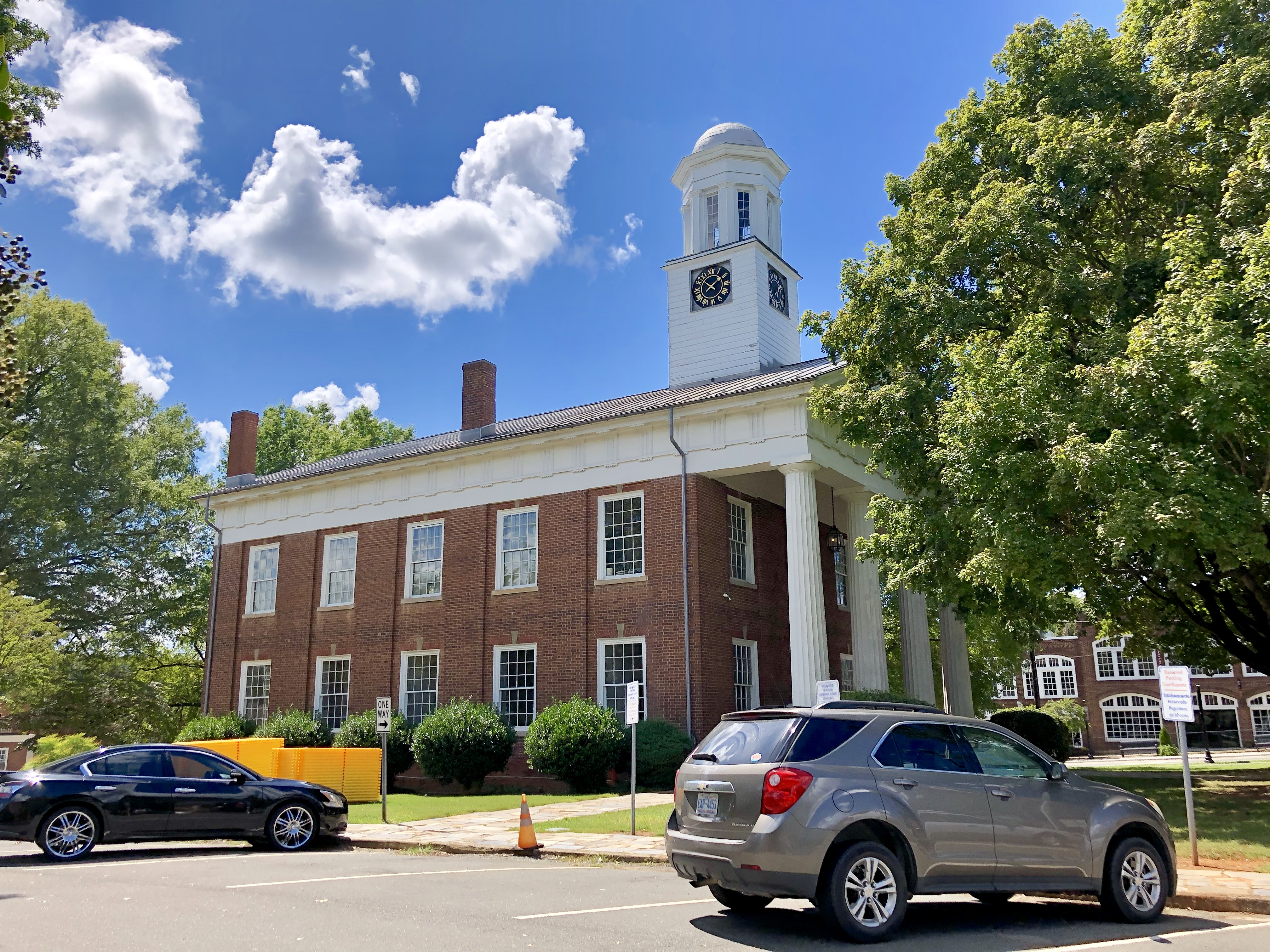 This is the old Orange County Courthouse, constructed in 1845 on the public square in the downtown business district of Hillsborough, North Carolina. The building was used as the Orange County Courthouse until it was replaced with a new courthouse in 1954, and was listed on the National Register of Historic Places in 1971.